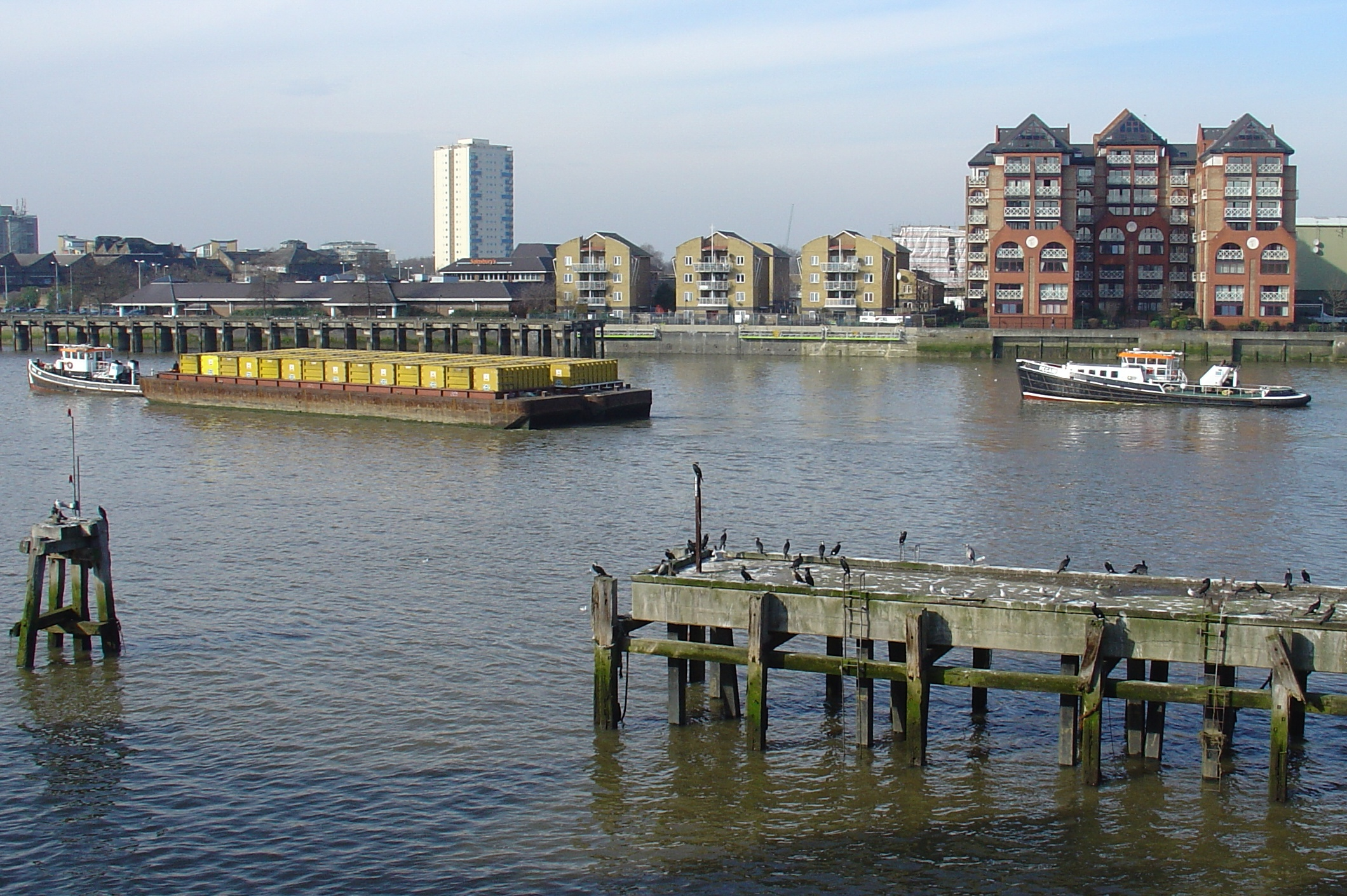 At Battersea on the Thames, a heavy load of containers is towed upstream under the gaze of resting cormorants